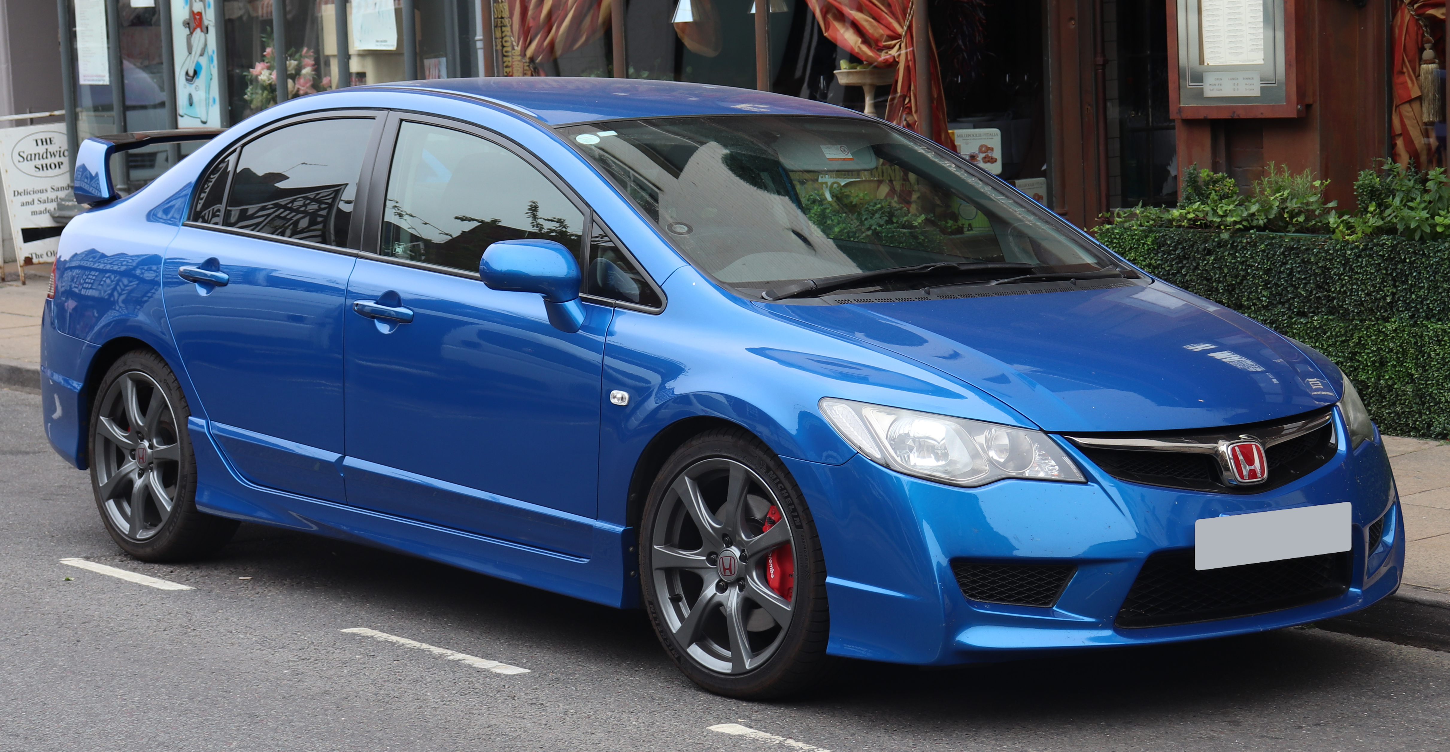 2008 Honda Civic Type-R 2.0 Front Taken in Warwick